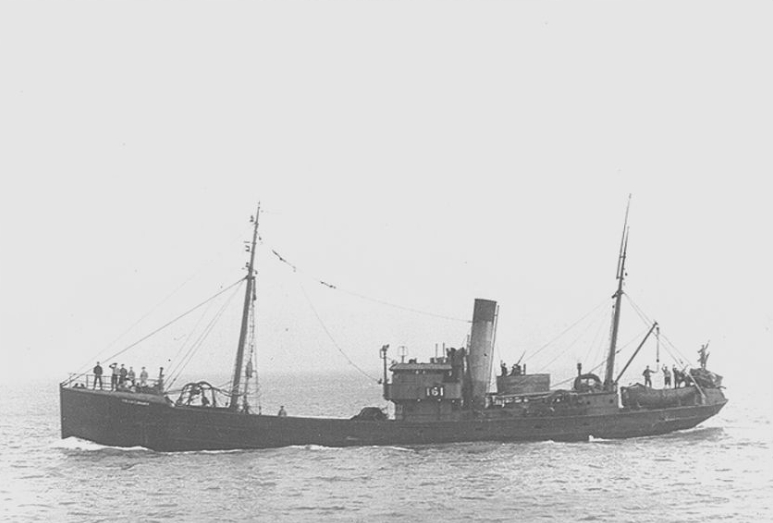 O.159 Transport